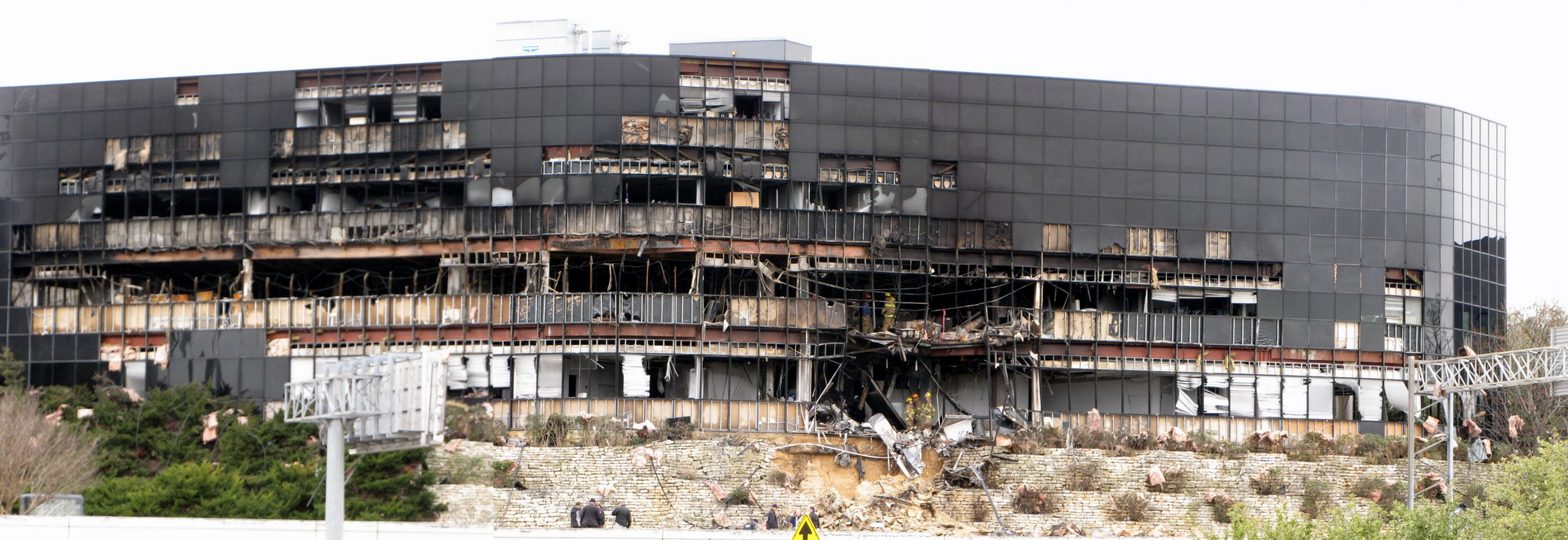 Panorama of the damaged Echelon office complex in Austin, TX, the day after a man flew his plane into it.